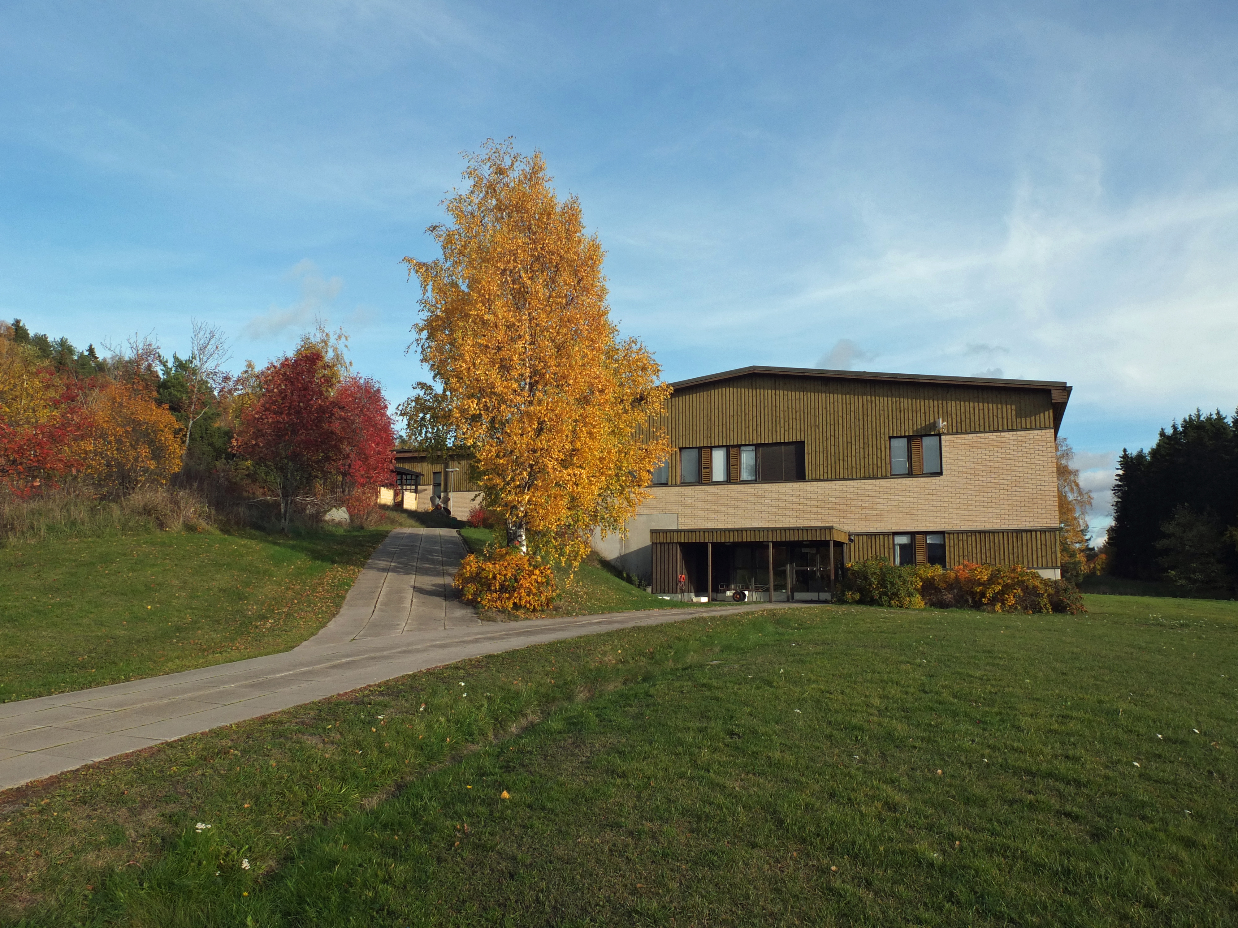 Kalakoulu, Livia vocational school for fishery in Parainen, Finland.